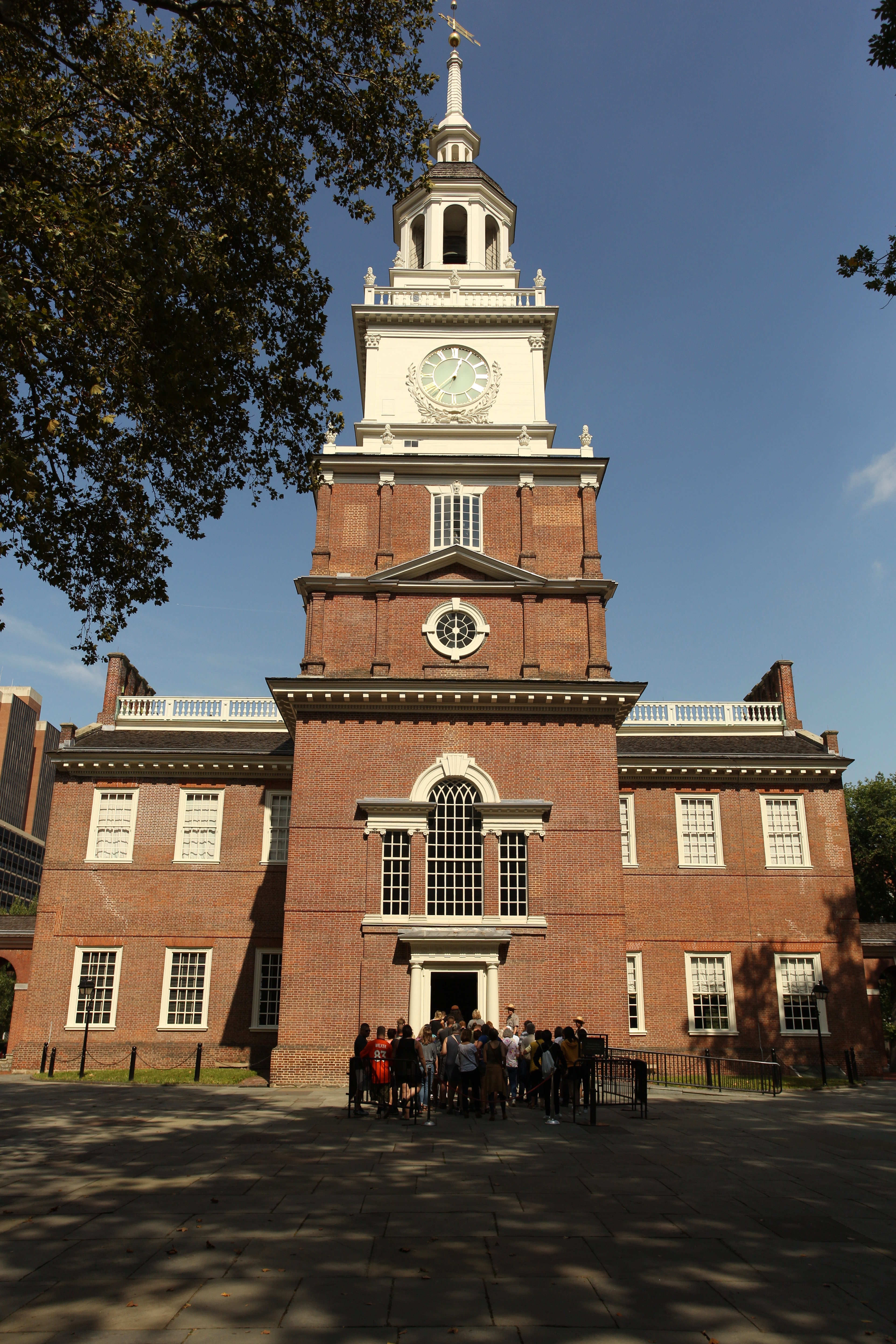 Independence Hall South Facade